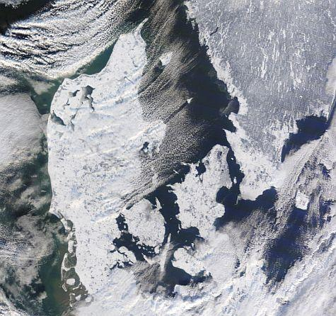 Satellite image of Denmark on 8 January, taken by NASA, showing the extent of recent snowfall.